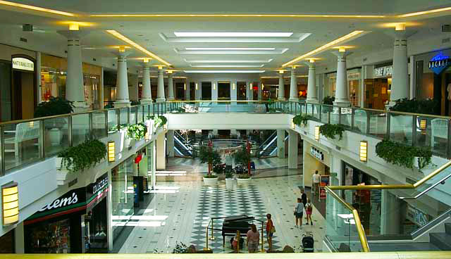 Looking Toward The Lower Level Food Court From Carson's